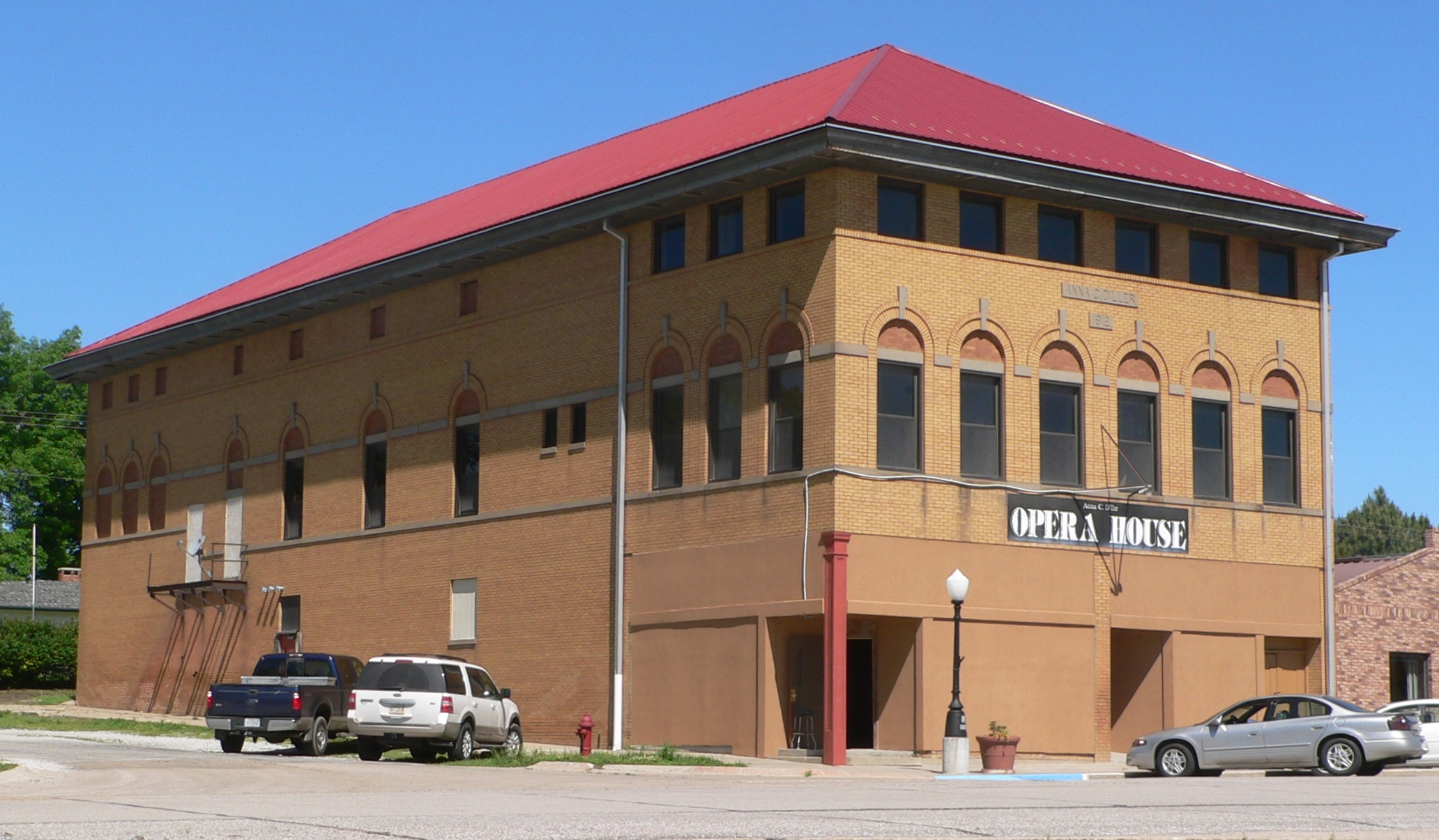 Anna C. Diller Opera House, located at northwest corner of Hilton and Commercial Streets in Diller, Nebraska; seen from the southeast.